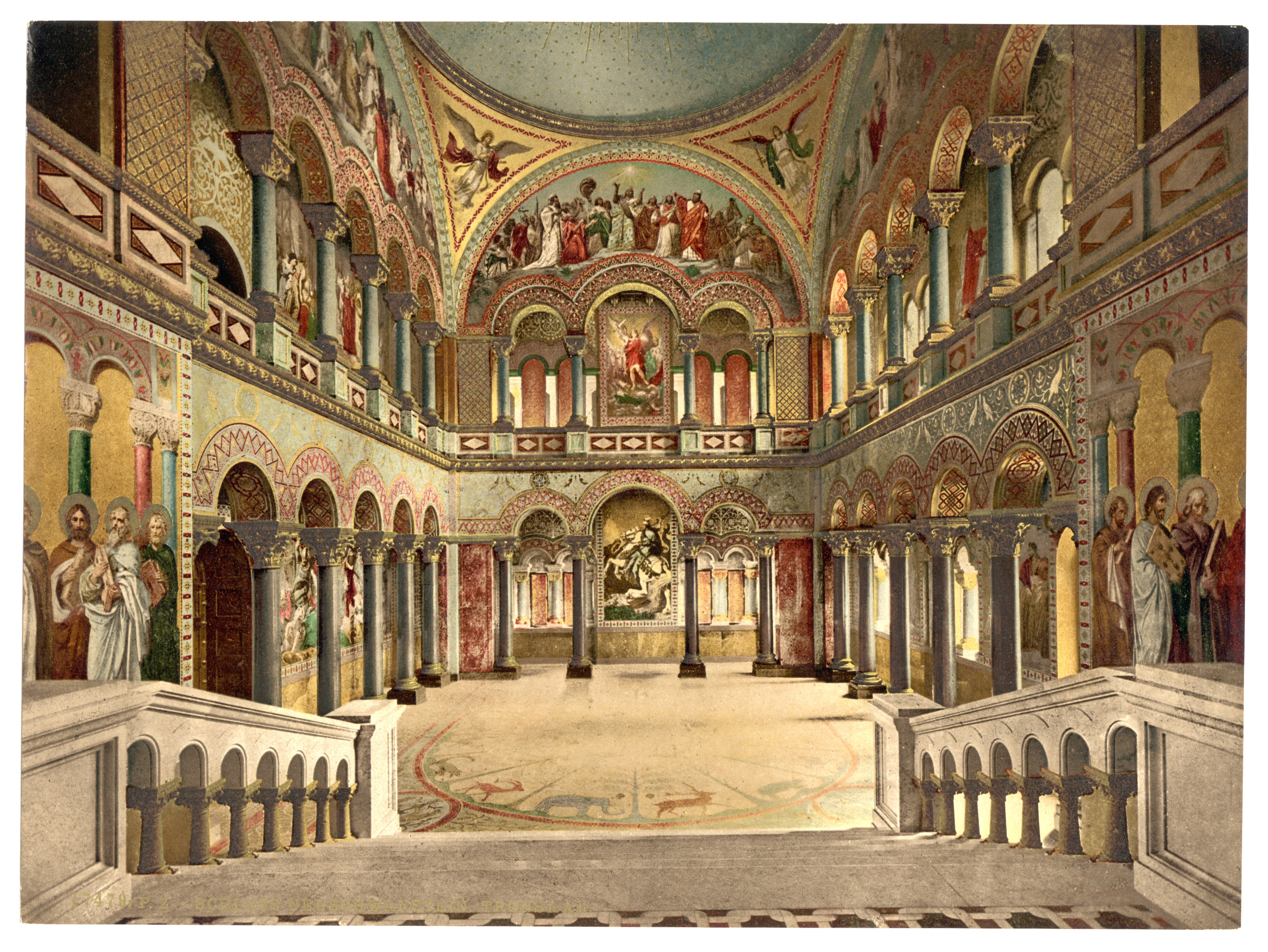 Title from the Detroit Publishing Co., catalogue J-foreign section. Detroit, Mich. : Detroit Photographic Company, 1905.; Print no. "17479".; Forms part of: Views of Germany in the Photochrom print collection.